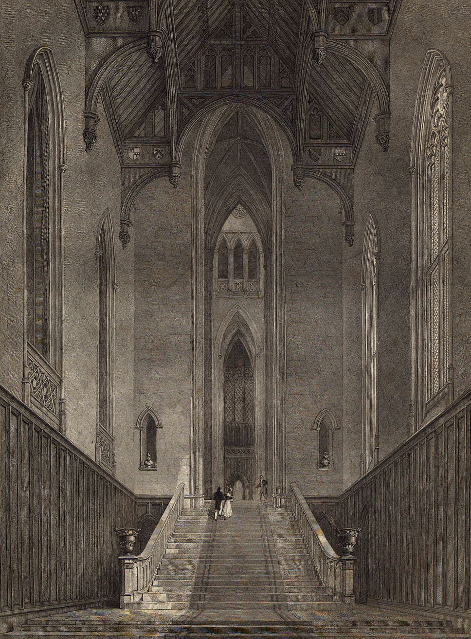 The hall of Fonthill Abbey in Wiltshire, England